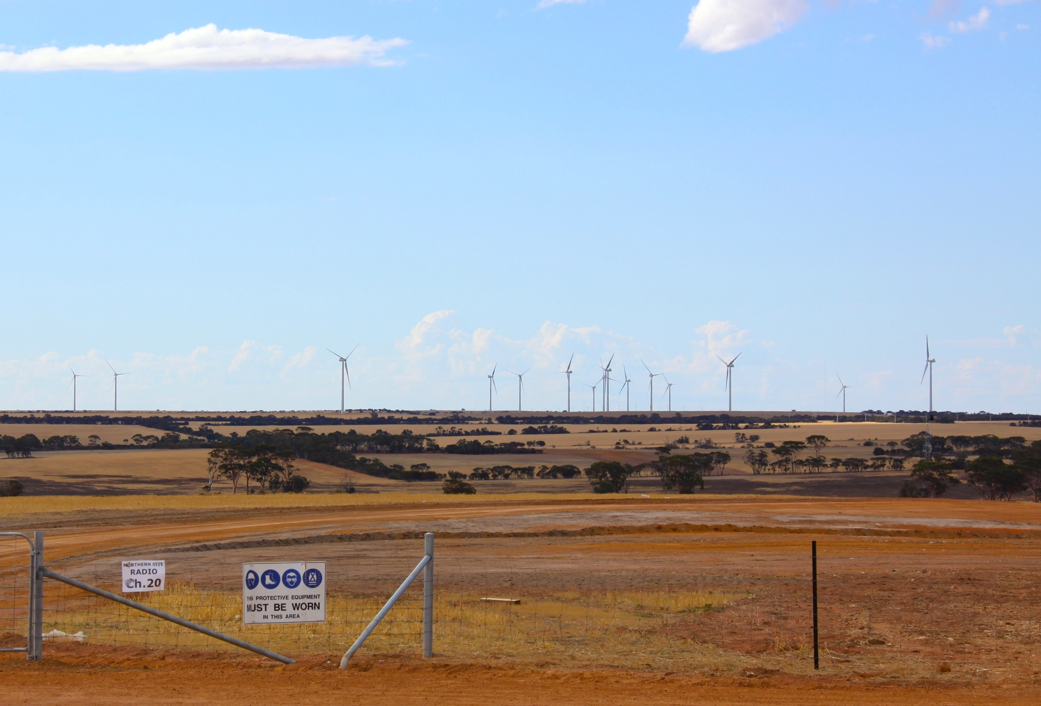 Collgar Wind Farm, Merredin, Western Australia